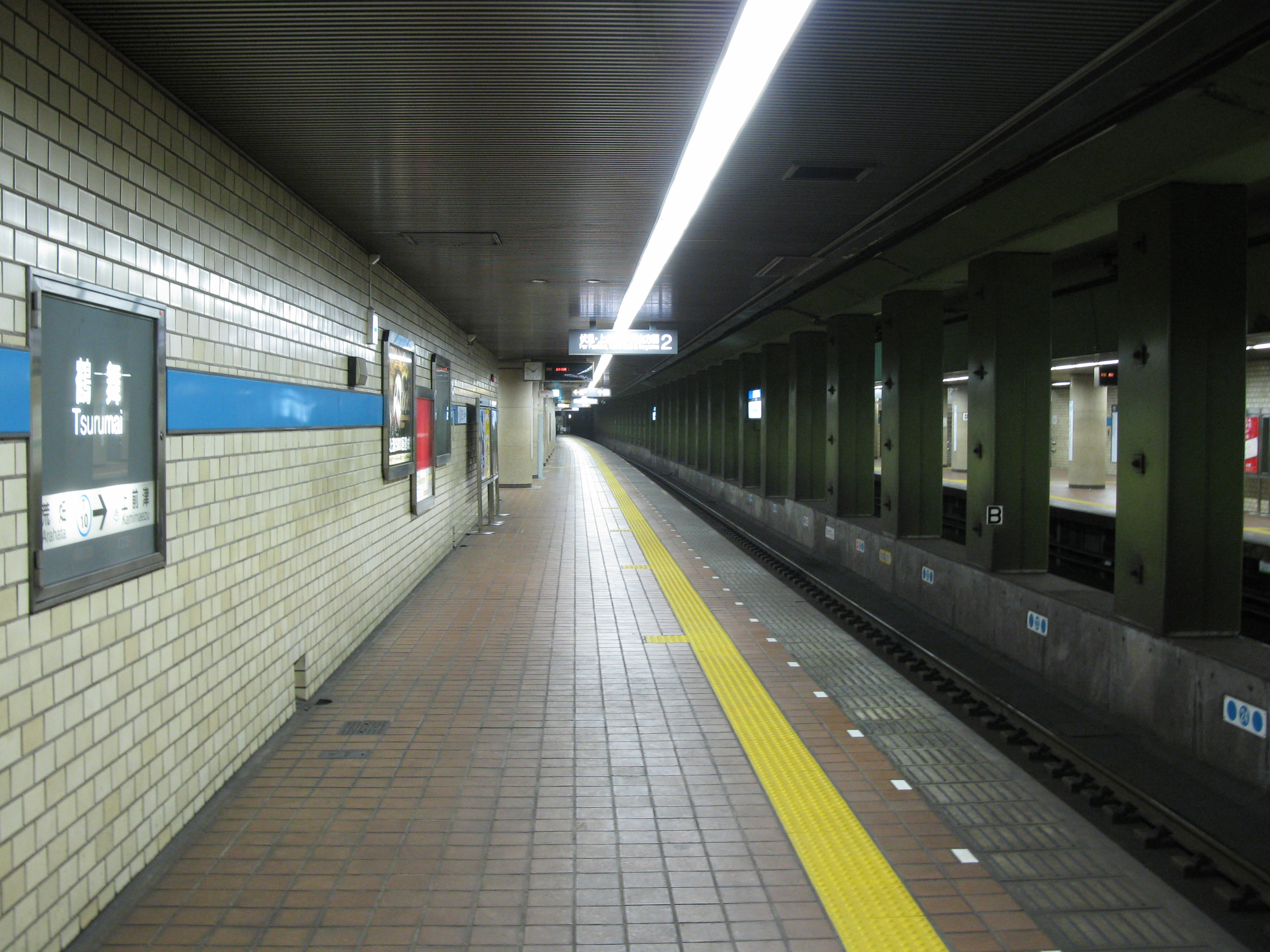 Tsurumai Station platform (Nagoya Municipal Subway Tsurumai Line)